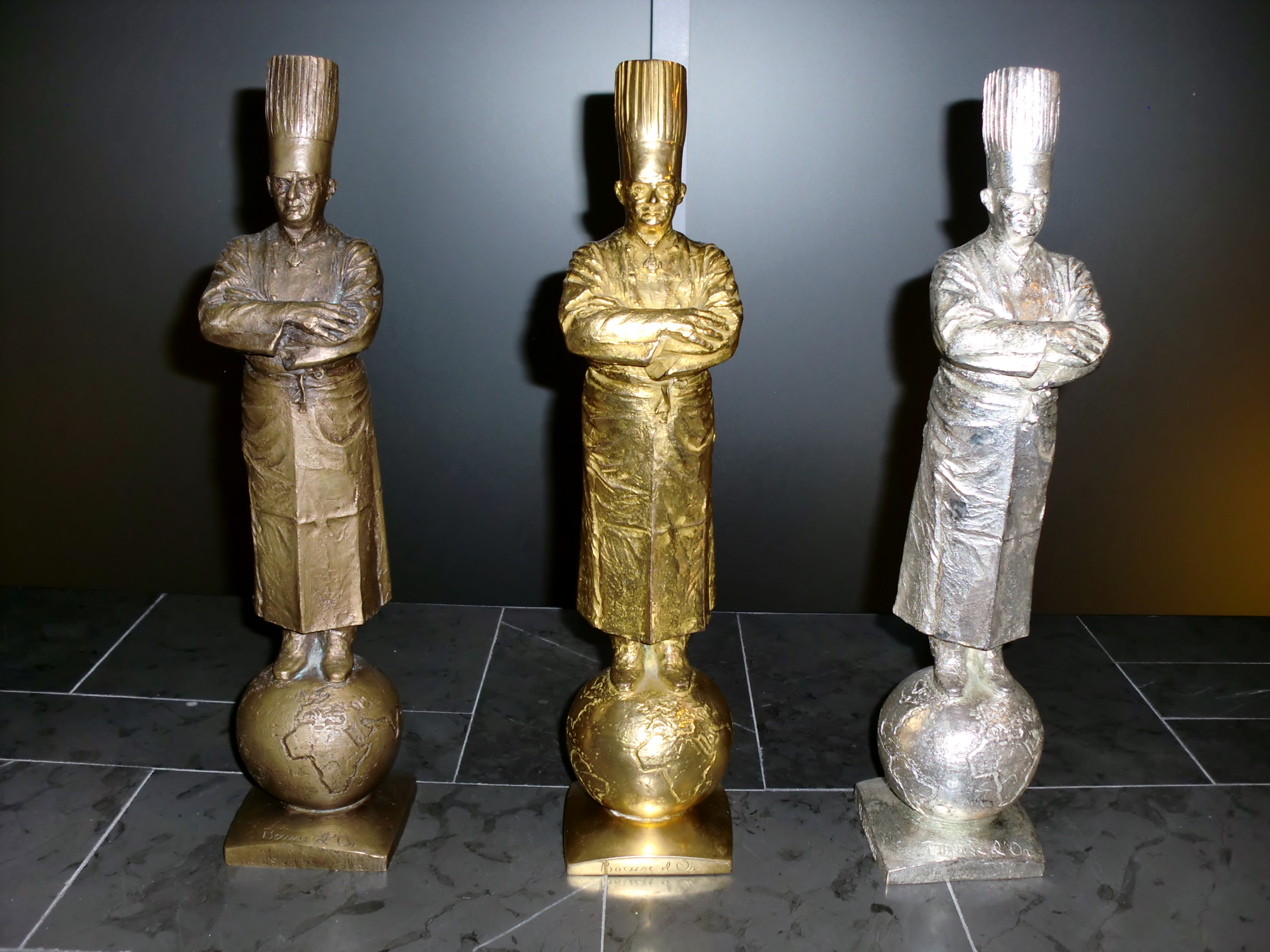 Bocuse d'Or, gold - silver - bronze. From Rasmus Kofoed at the Geranium